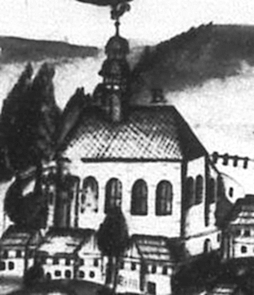 Raschau church 1721.